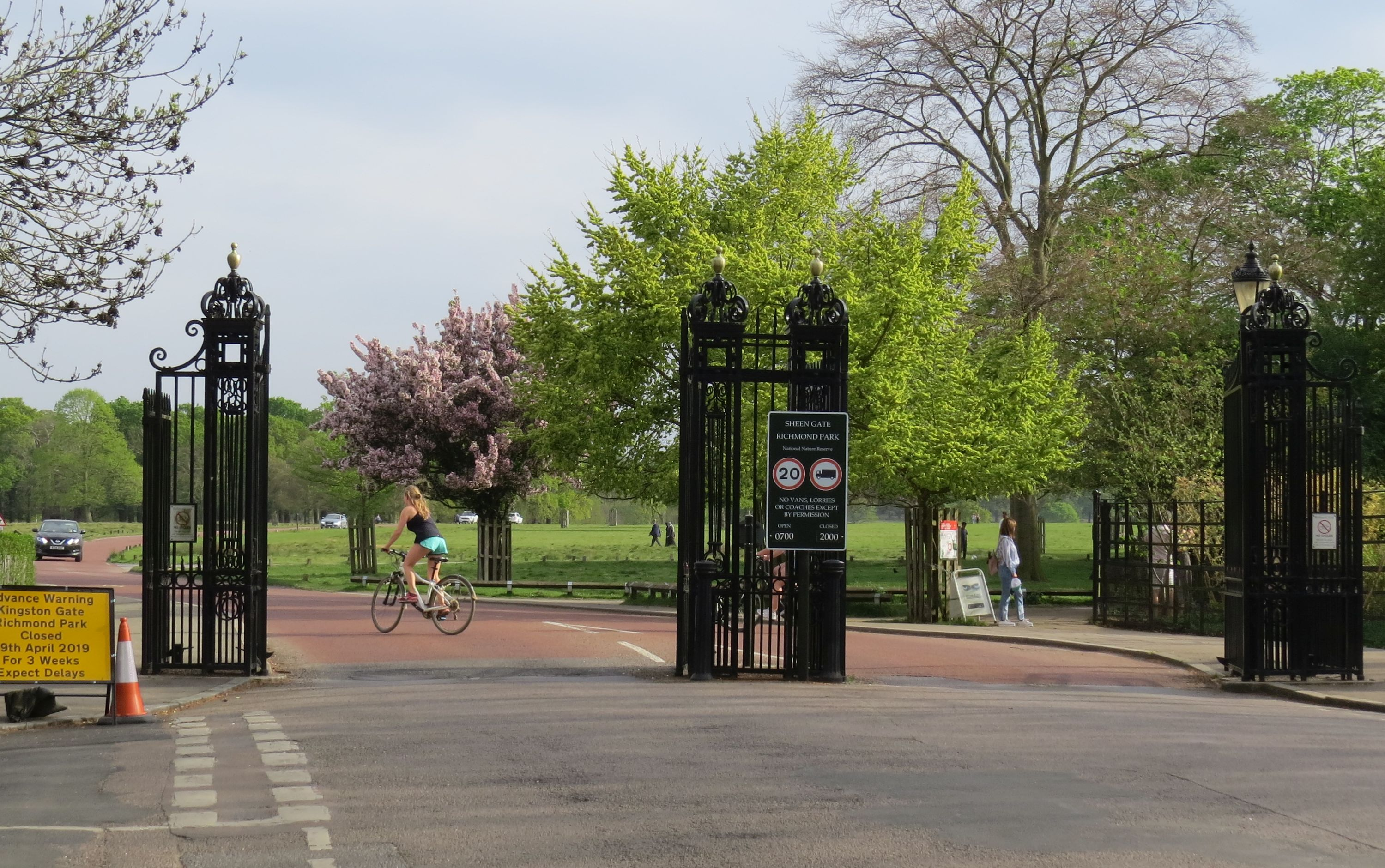 Sheen Gate - Richmond Park, London